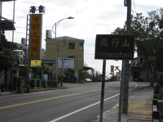 Yinhaoshan is the highest mountain in Changhua City.The picture was taken the County Highway No.139,near Provincial Highway No.74A.